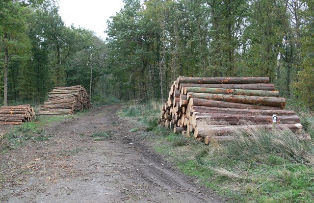 Launde Park Wood Nature Reserve The piles of logs are at the entrance to the wood.